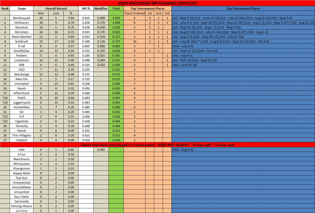 2009 Hmong Flag Football WI RPI Rankings